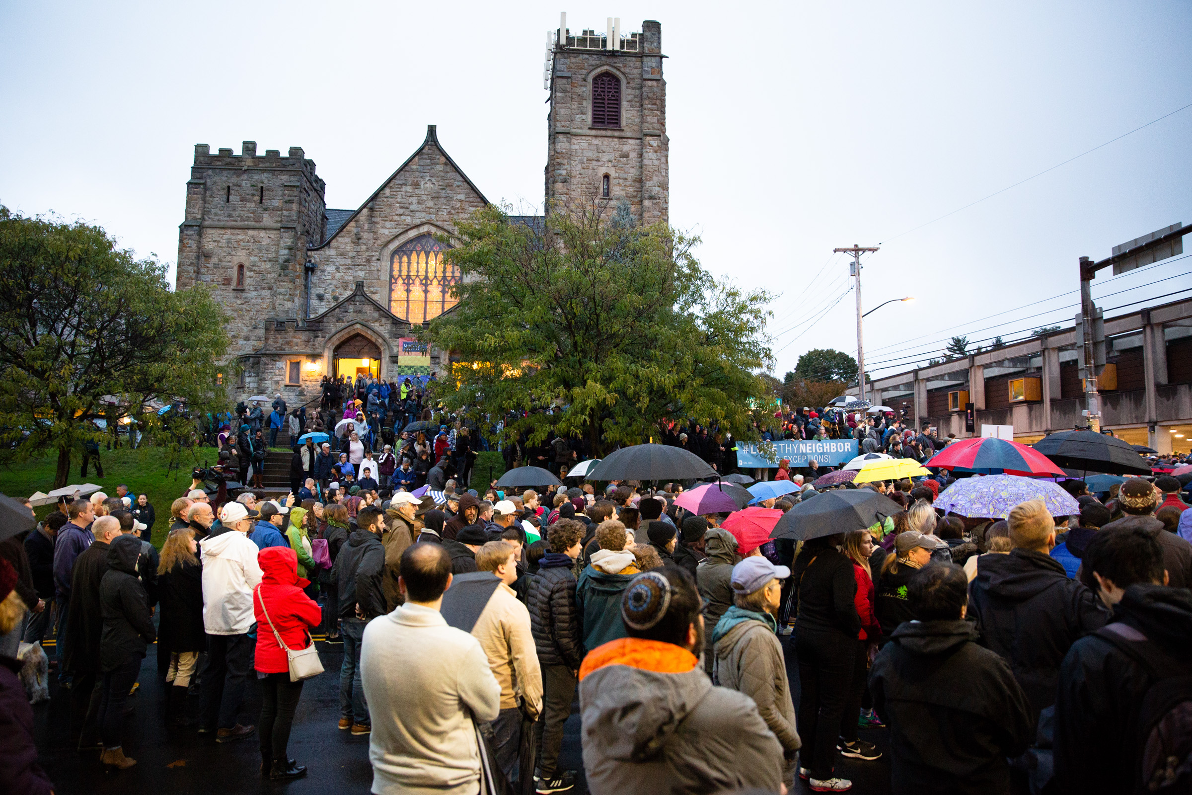 Governor Wolf Gives Remarks Regarding Pittsburgh Shooting and Participates in Vigil Pittsburgh synagogue shooting